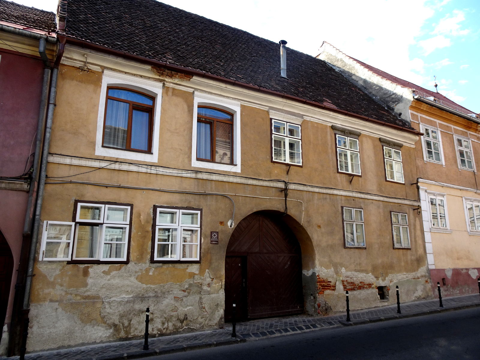 Poarta Schei street in Brasov, house number 35